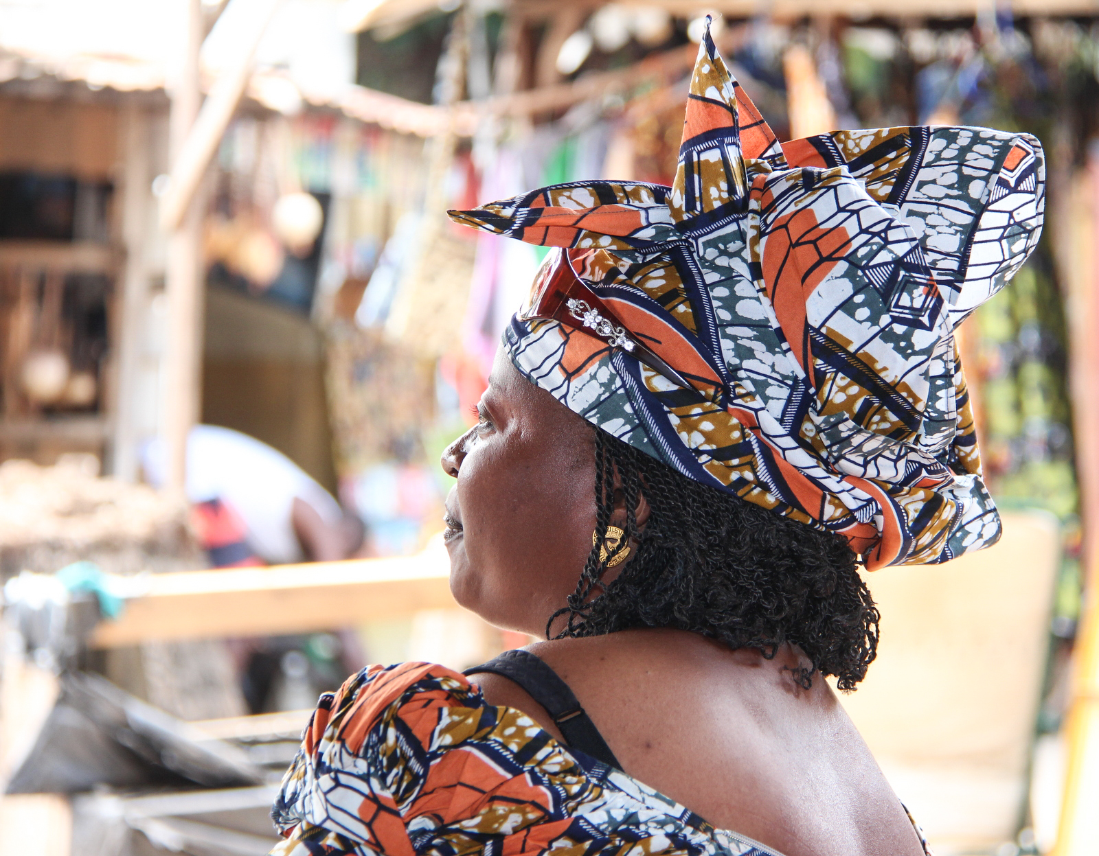 Woman of the Gambia with a colored head scarf